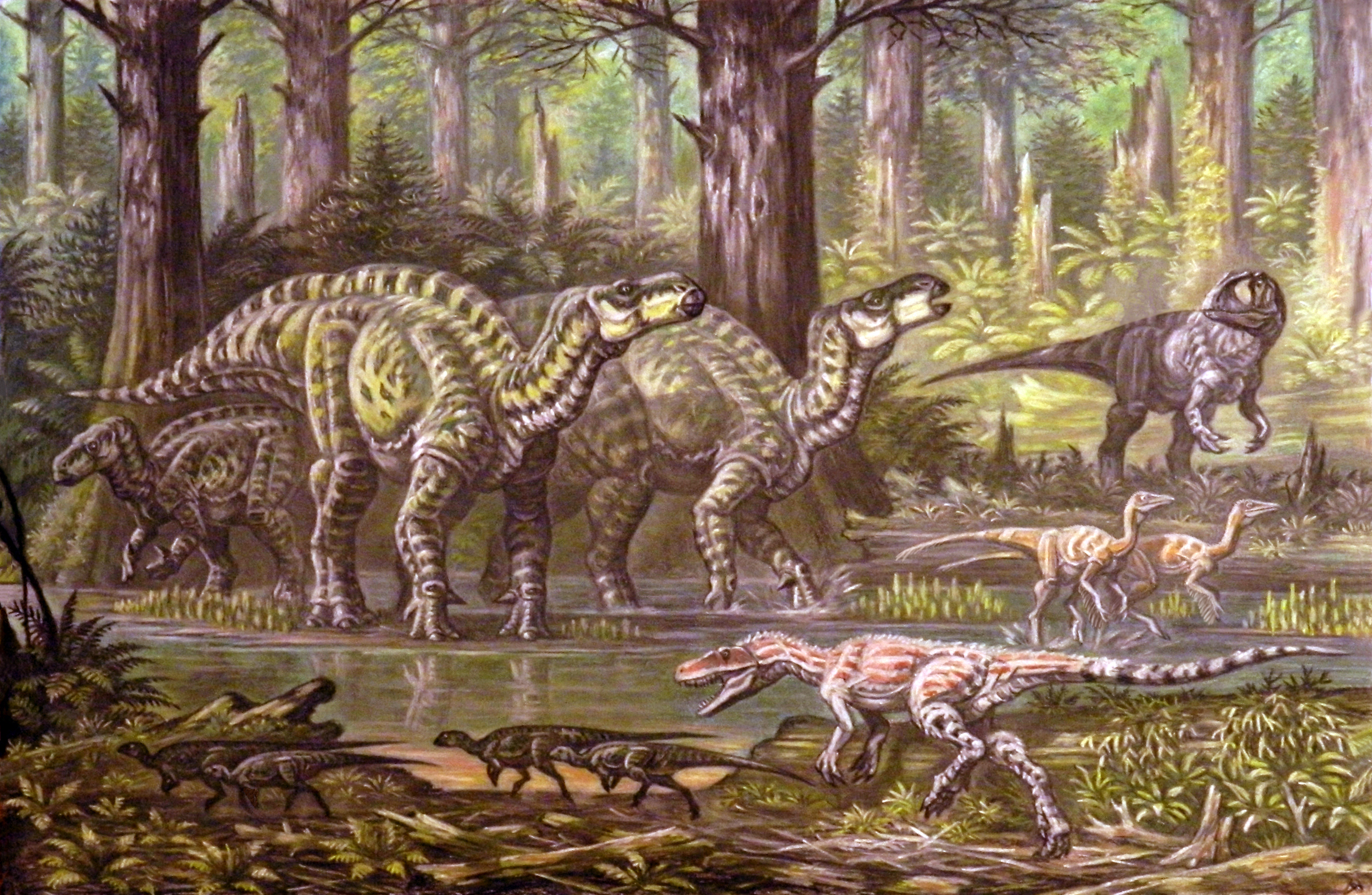 Wessex Formation dinosaurs, including Iguanodon, Neovenator, Ornithomimosaurs, Hypsilophodon, and Eotyrannus.